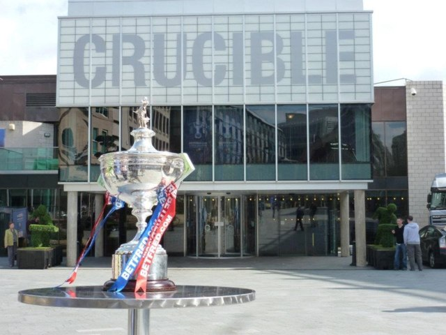 Left apparently unattended, the World Snooker Championship trophy catches the sun outside the Crucible Theatre, which has hosted the championship since 1977, on the opening day of the 2012 event. It has not actually been left on its own; BBC camera crew are just out of shot to the left, and shortly presenter Hazel Irvine would do a piece to camera.